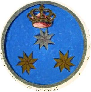 From Lithuanian Vikipedia - Vieksniai coat of arms